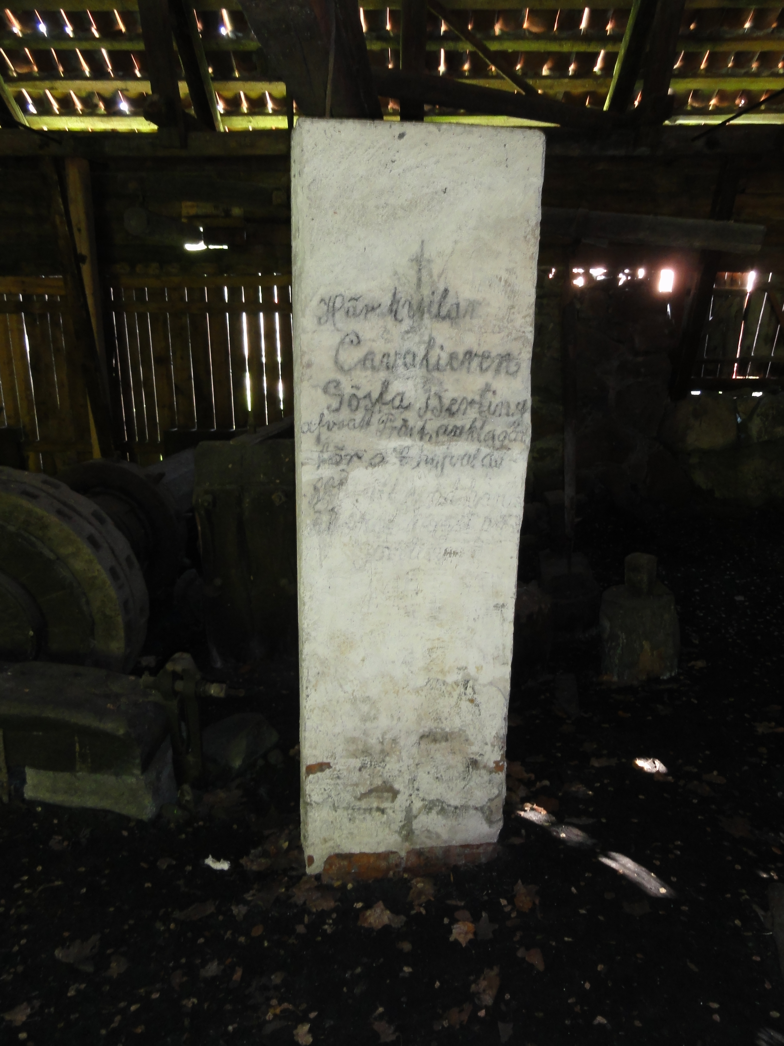 Prop from silent movie Gösta Berlings saga (1924) @ Vira bruk